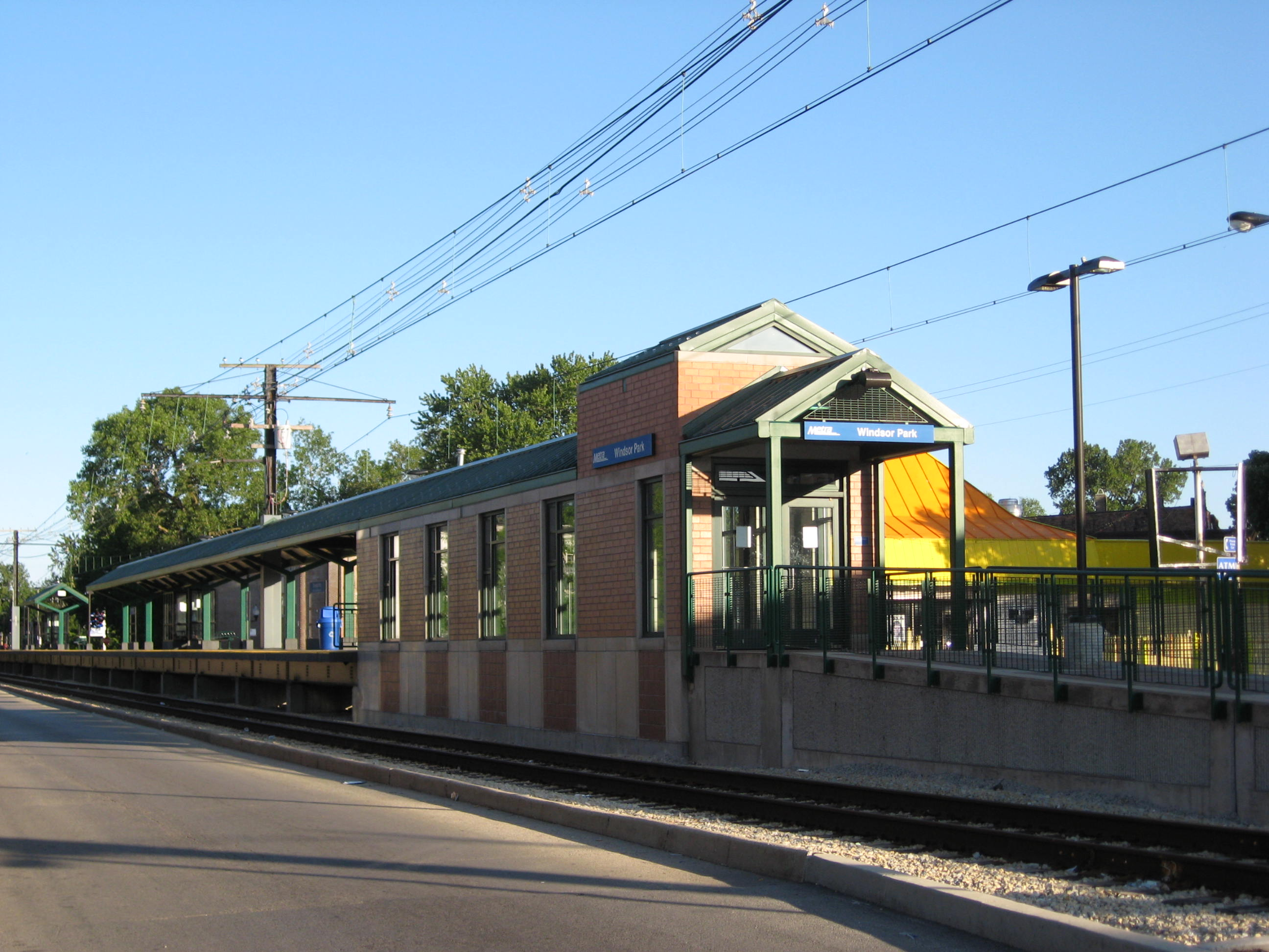 75th Street and Exchange Avenue Metra Elctric Line: South Chicago Branch Zone B